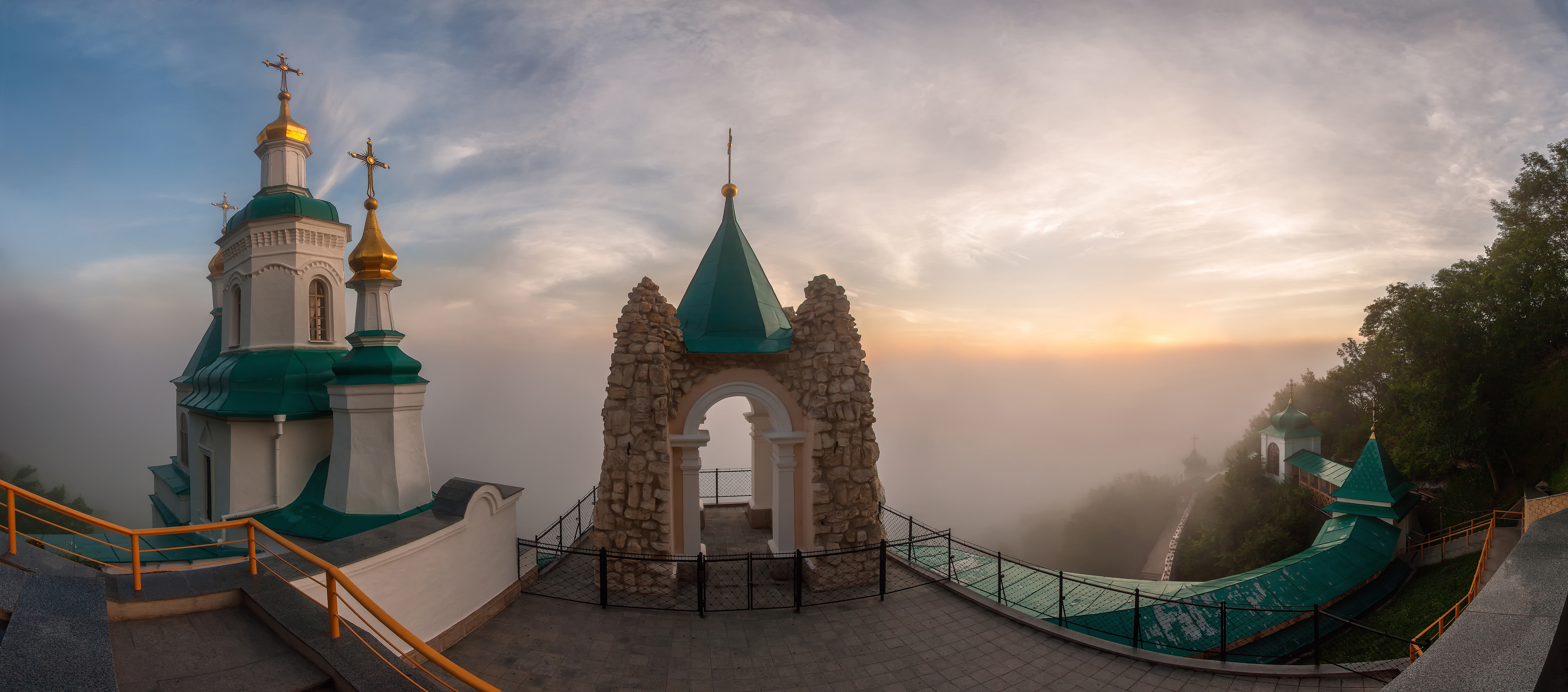 17th-century Saint Nicholas Church (architectural monument of the national significance №154/1) and 19th-century Saint Andrew Chapel of Sviatohirsk Lavra. View from the top of the cretaceous rock. Sviatohirsk, Donetsk Oblast, Ukraine